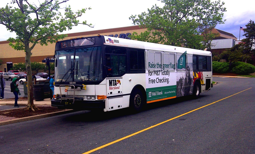 MTA Maryland NABI 416 #9920 at White Marsh Mall.